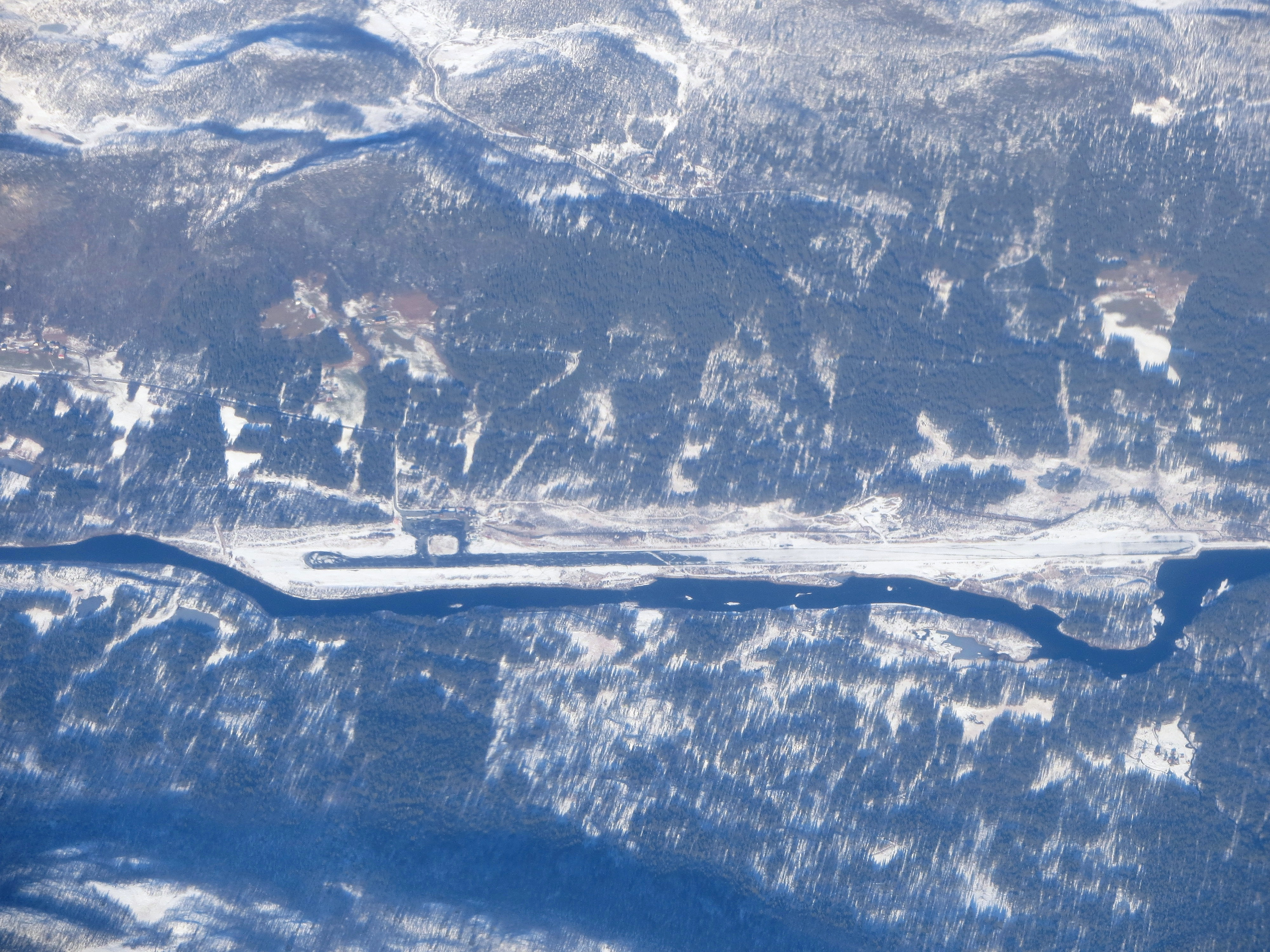 The Dagali area of southern Hol municipality - Buskerud (Norway). Showing Dagali airport.